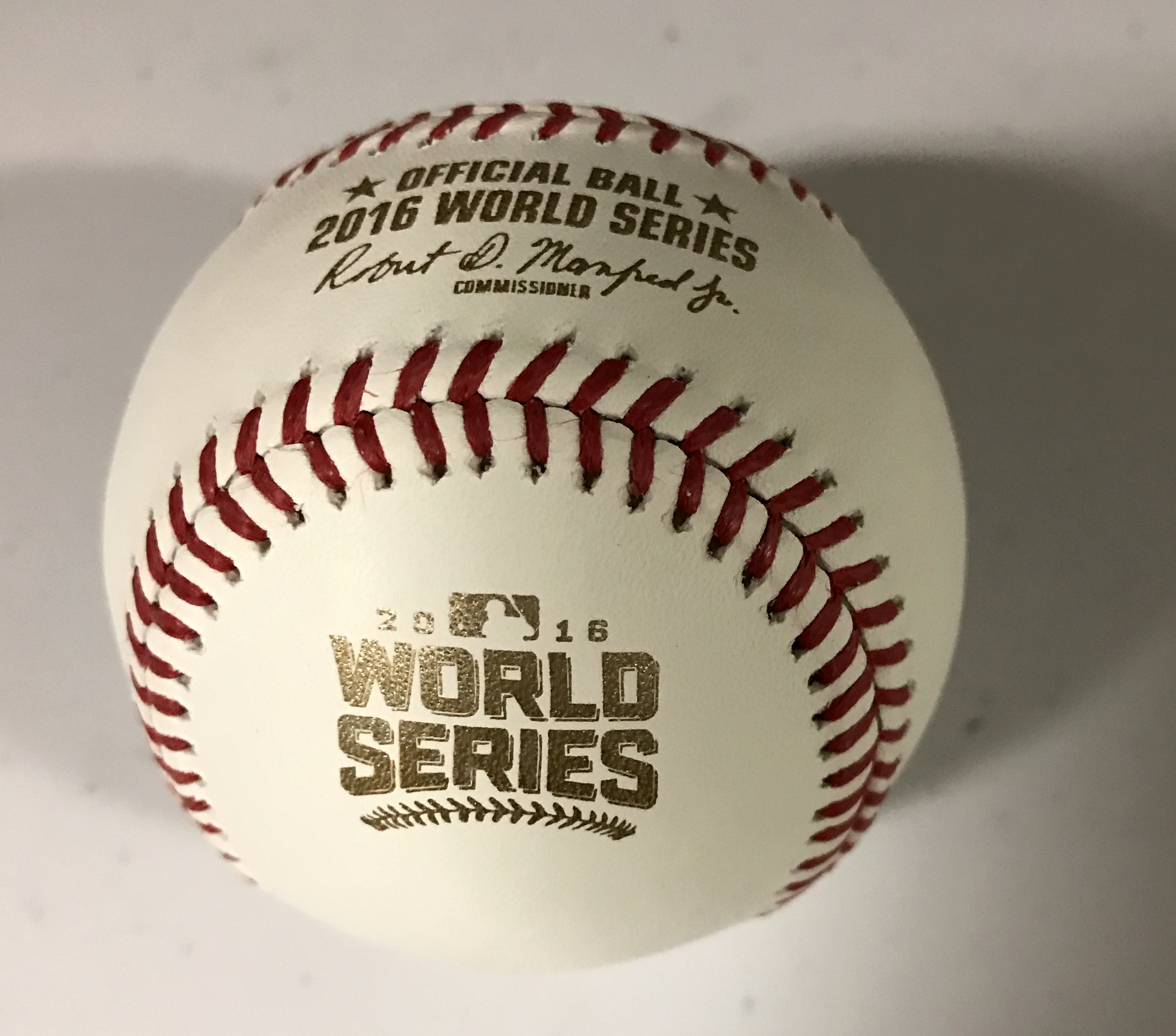 The 2016 World Series baseball. Shot on an iPhone 7 Plus.